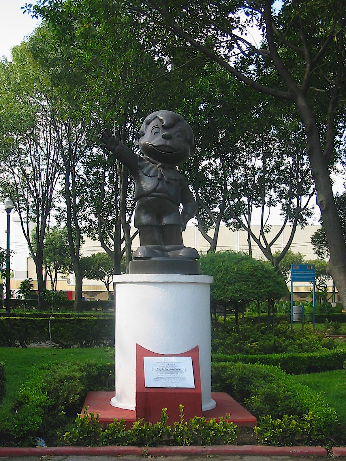 Statue created in honor of Xavier Lopez, better known as Chabelo, on permanent display at the Jardin de los Grandes Valores (Garden of Great Values) in Mexico City. Sculpted by Oscar Ponzanelli. Unveiled in 2006